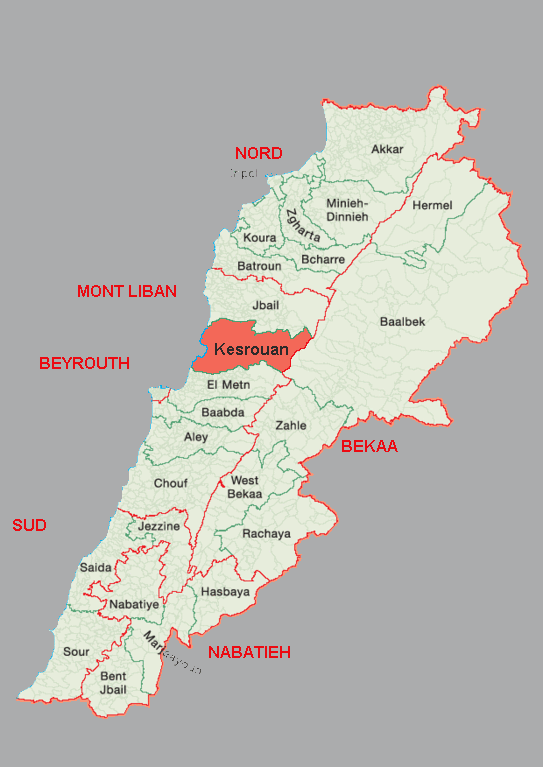 Carte du caza de Kesrouan au Liban / Map of the caza of Kesrouan in the Lebanon